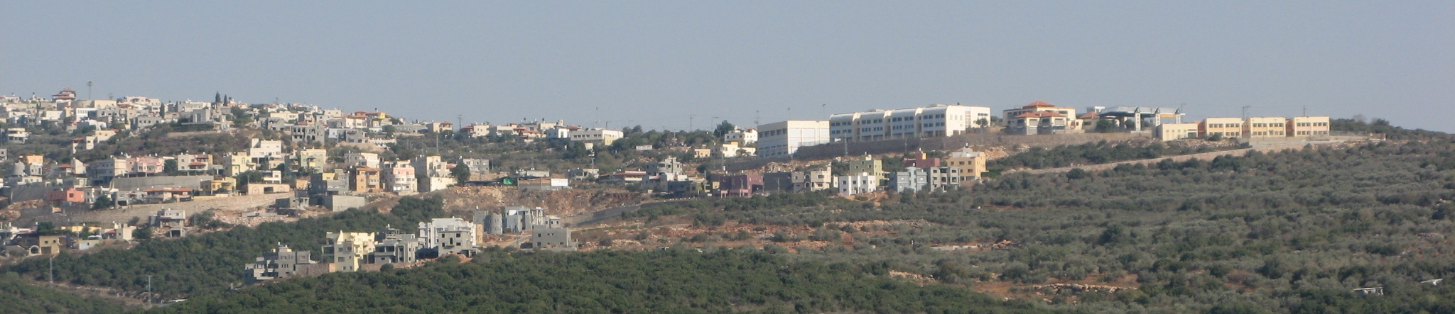 Yanoach from Y'chiam